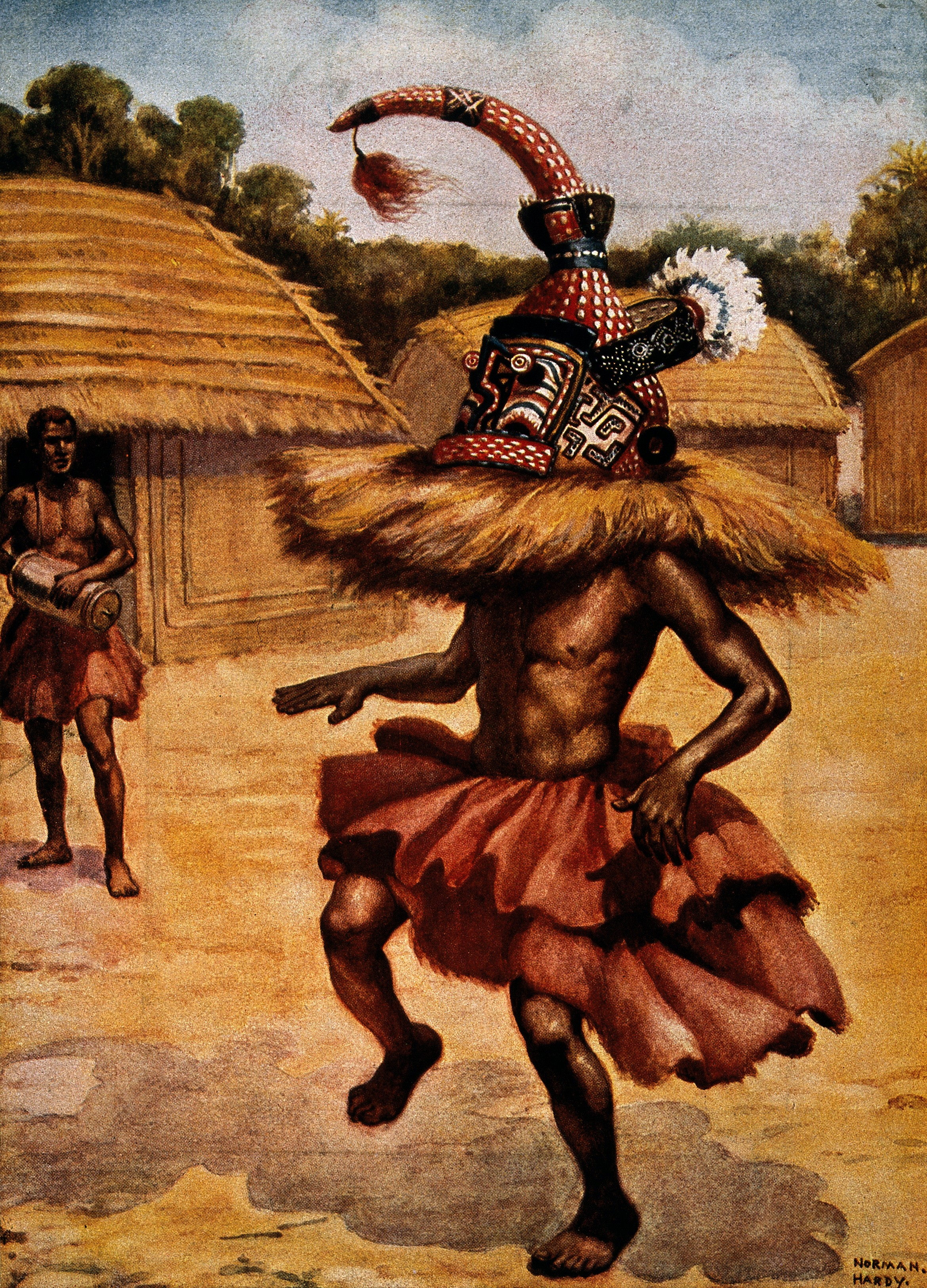 A shaman or medicine man from the lower Congo, Africa. Colour process print after N.H. Hardy. Iconographic Collections Keywords: medicine man; Norman H. Hardy; ic; shamen